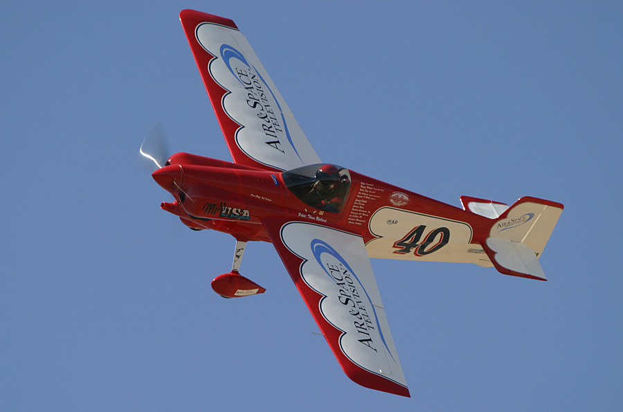 Cassutt Formula 1 Racer at Reno Air Races Cassutt Formula 1 Racer bei den Reno Air Races